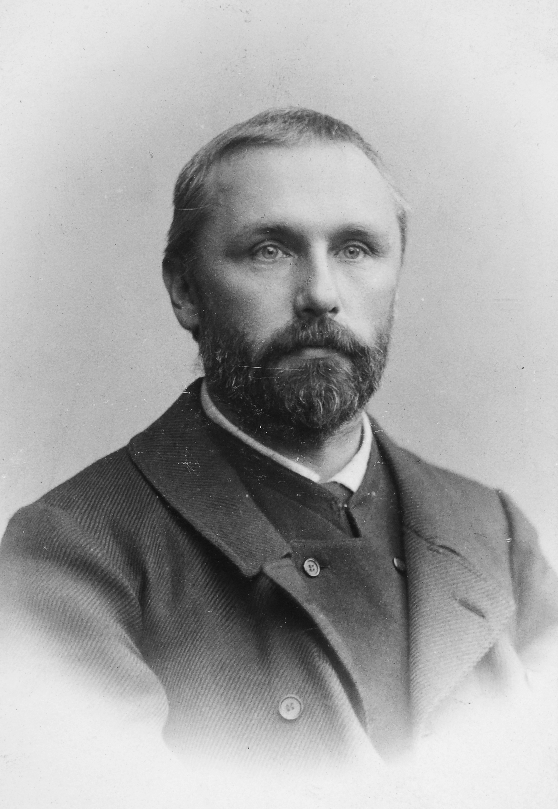 Photograph of the Finnish lawyer and author Arvid Järnefelt (1861–1932)